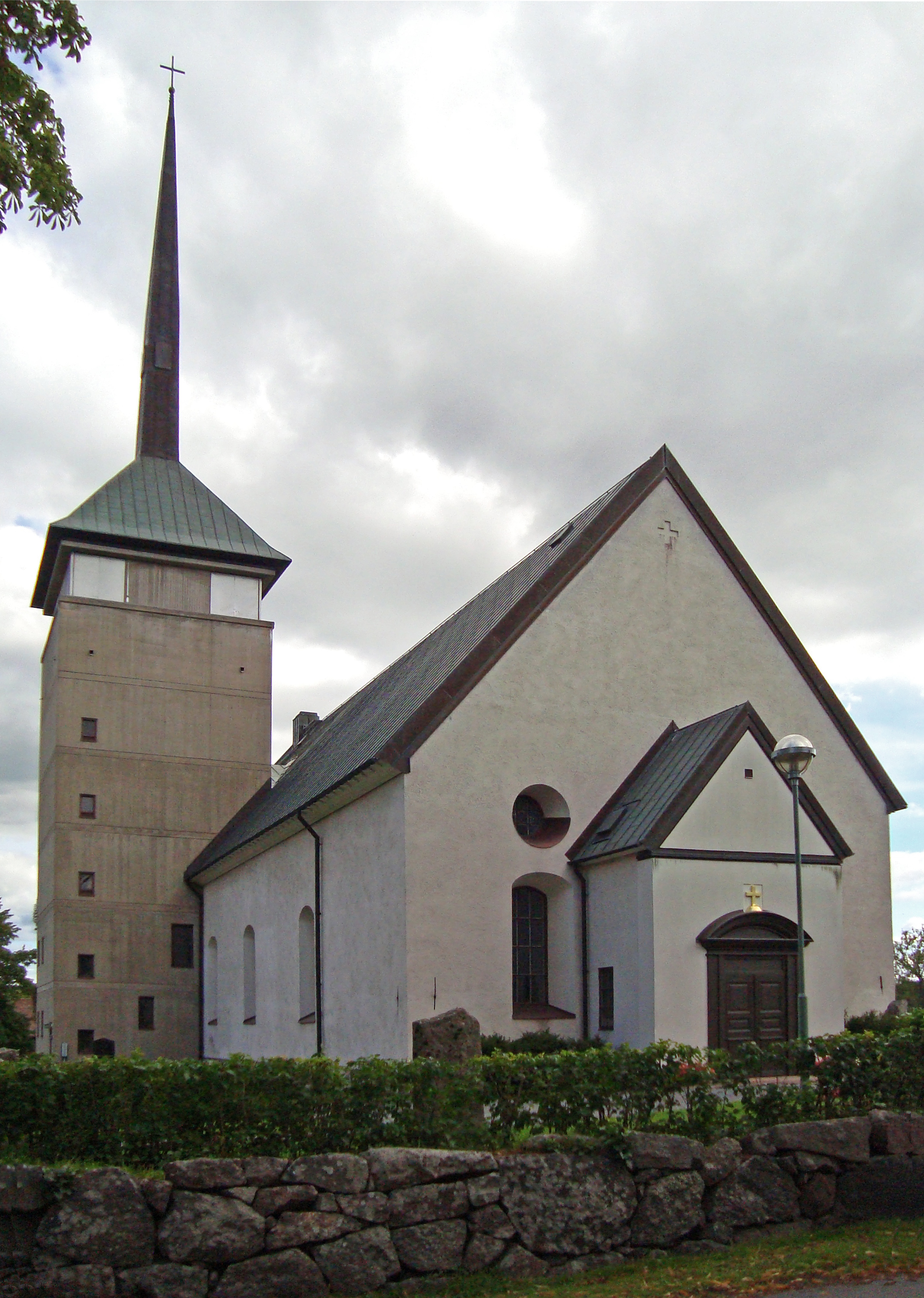 Vists kyrka (church), Sturefors, Sweden